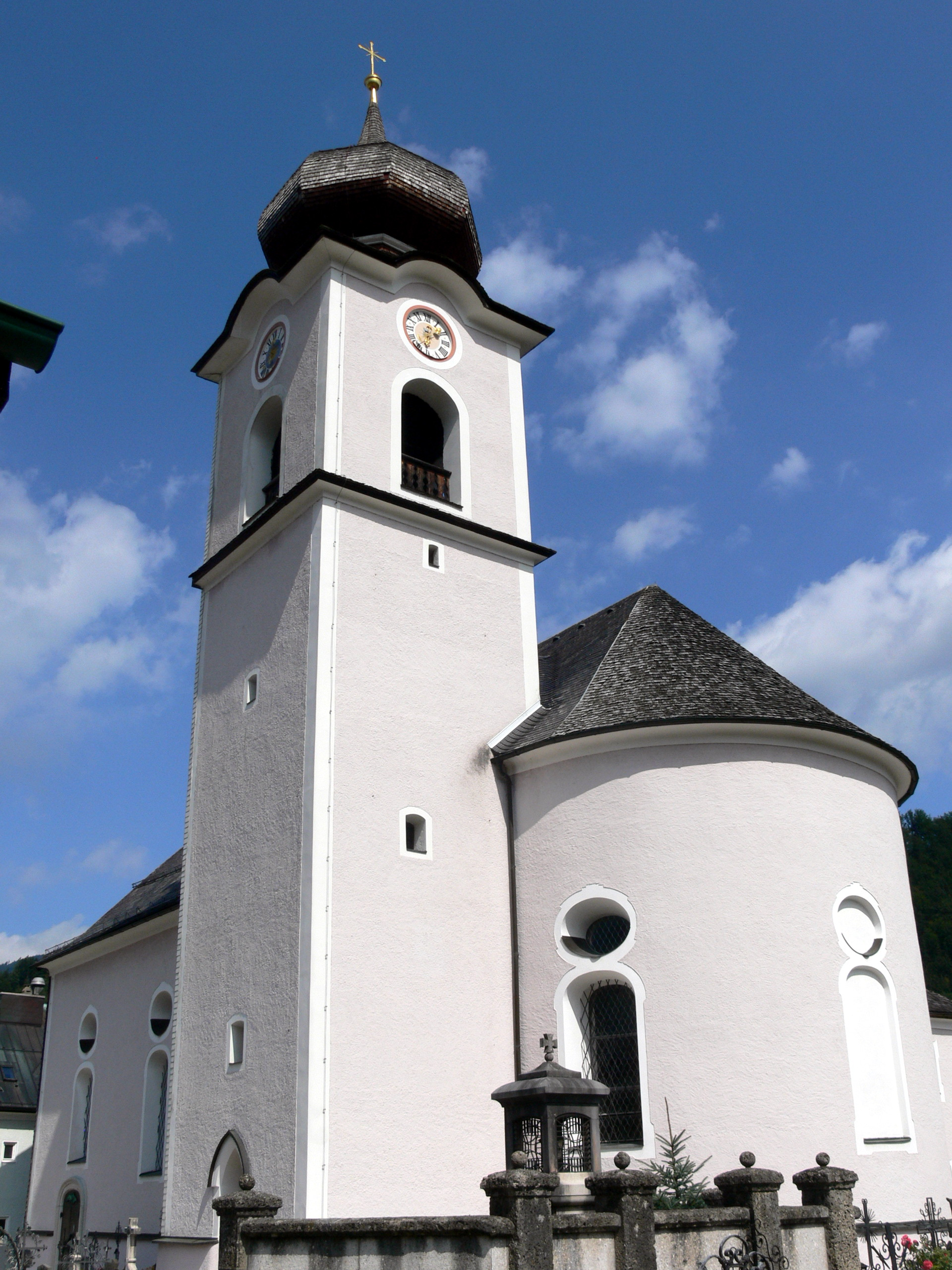 Saint Sigismund parish church in Strobl, Salzburg ( Austria ). Exterior.